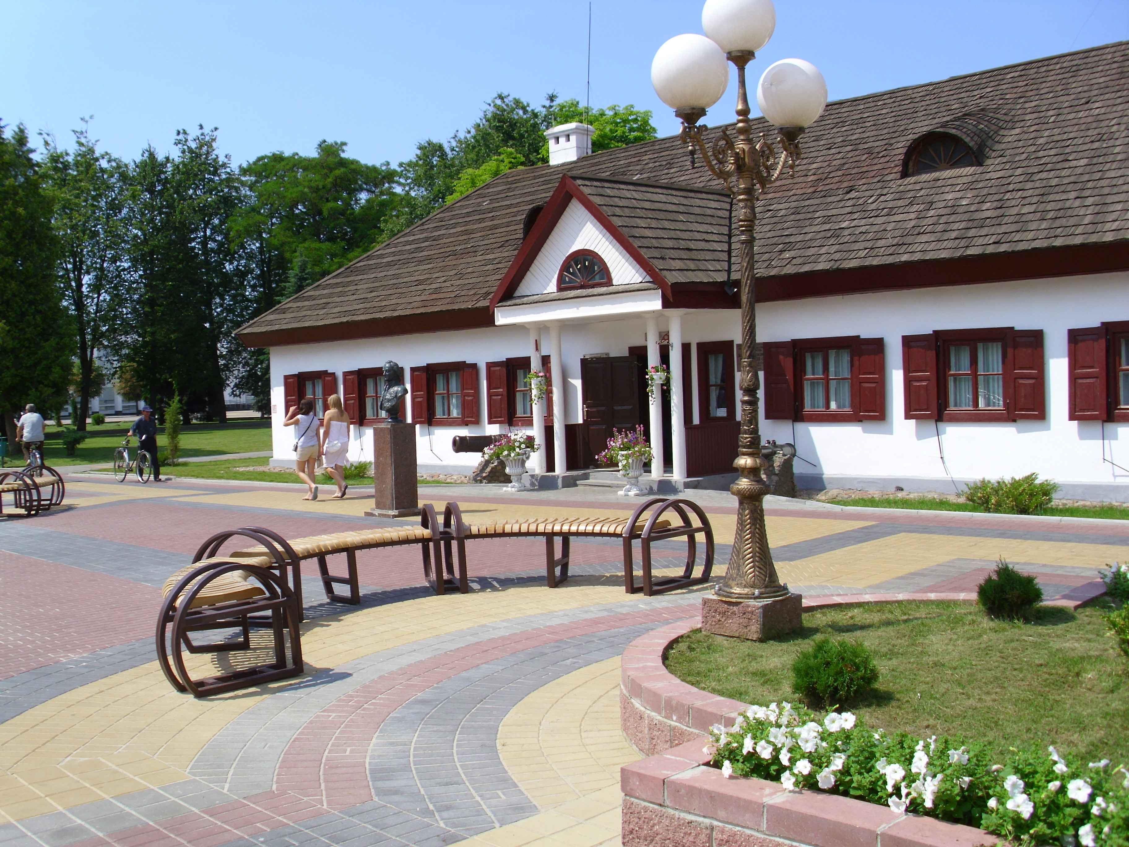 Suworow Muzeum шт Kobryn, Belarus